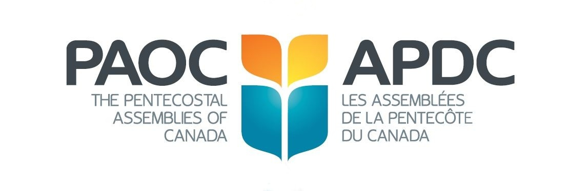 This is the logo for The Pentecostal Assemblies of Canada